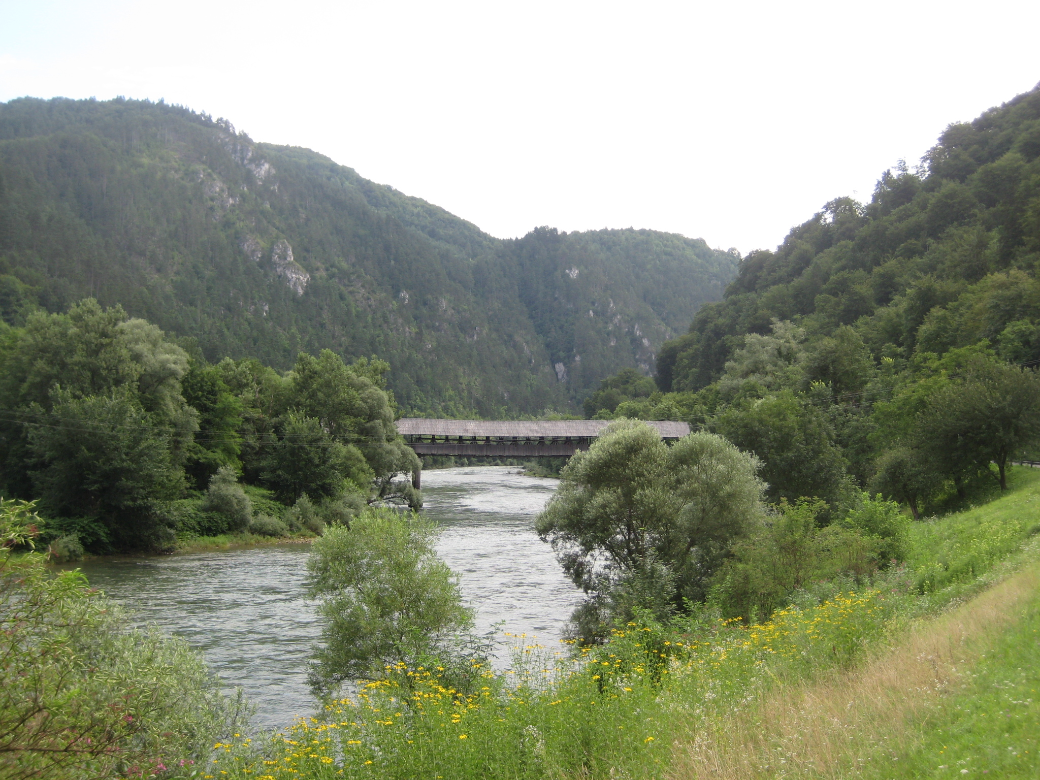 Bridge across the Sava river, near village called Sava, Slovenia.